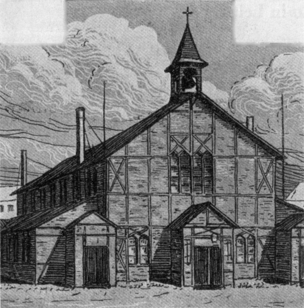 Interim Church of St. Michael's Parish in Leipzig-Gohlis, Eutritzscher corner Roscherstraße, built in 1894, discontinued 1904